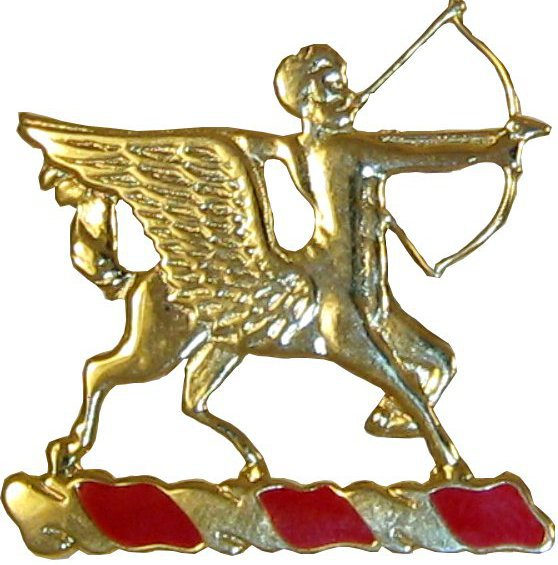 Distinctive Unit Insignia of the 6th Field Artillery (worn on right shoulder)